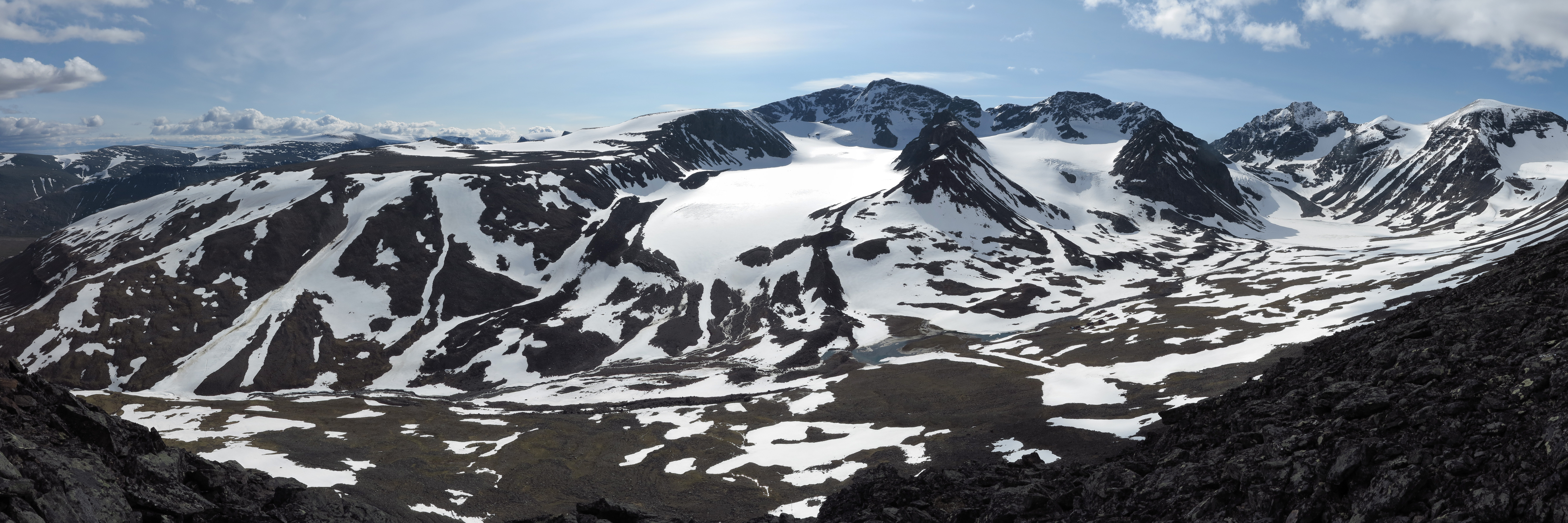 Tarfala valley panorama with Kebnekaise, glaciers, and research station